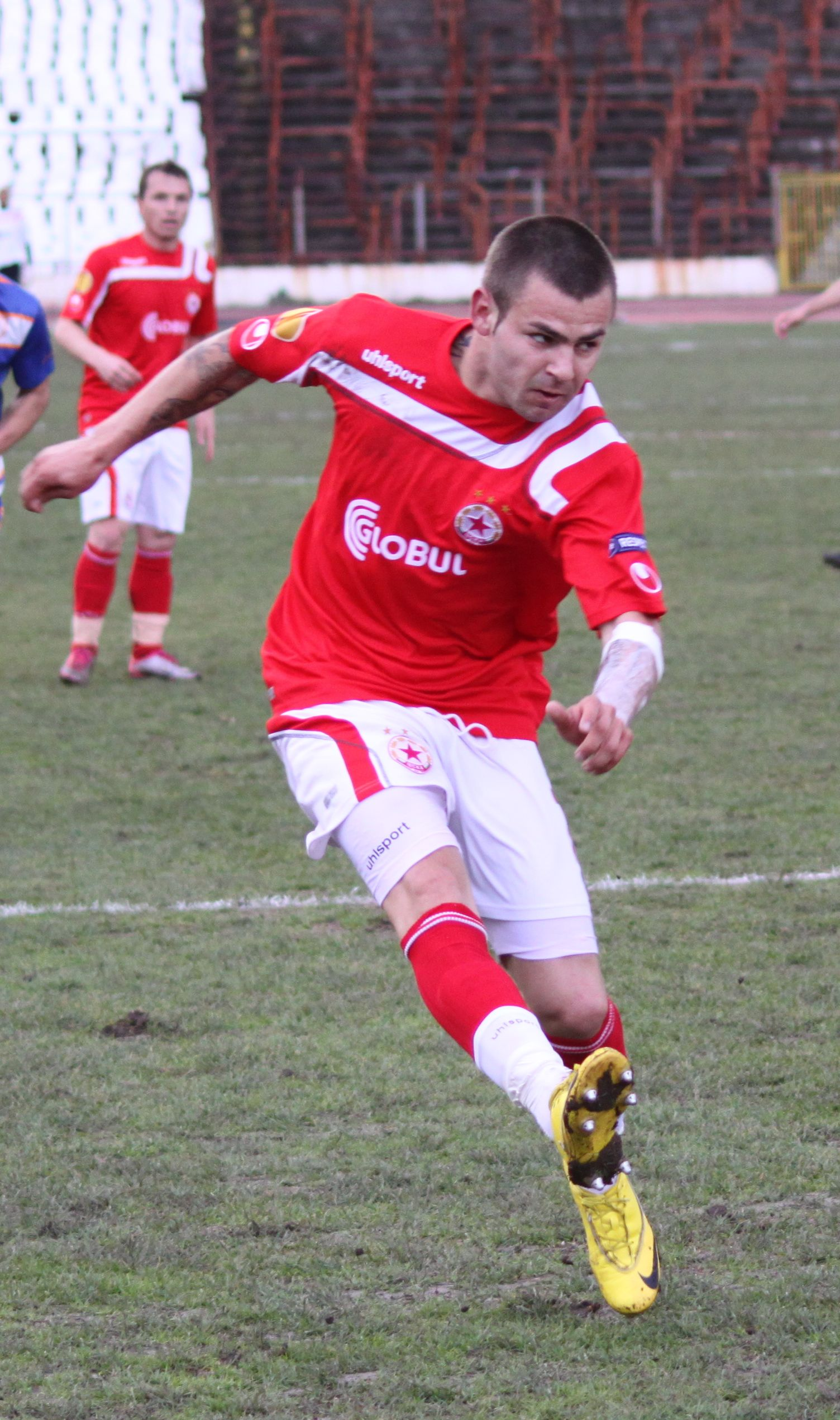 Spas Delev - bulgarian football player, striker